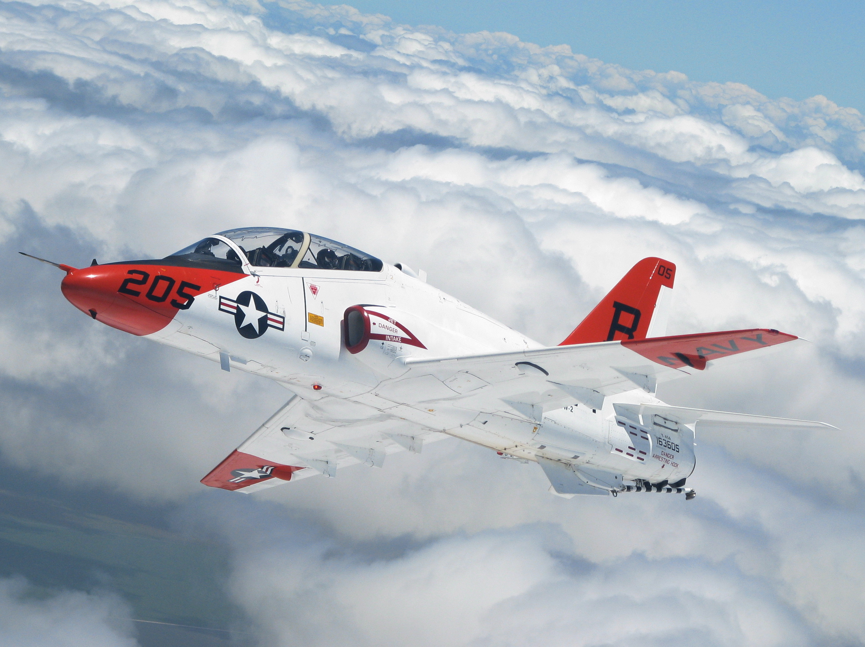 A T-45A Goshawk executes a turning rejoin during a recent formation flight over South Texas. The T-45 is a twin-seat, single-engine jet trainer and is the only aircraft in the Navy's inventory used specifically for training pilots to land aboard aircraft carriers.